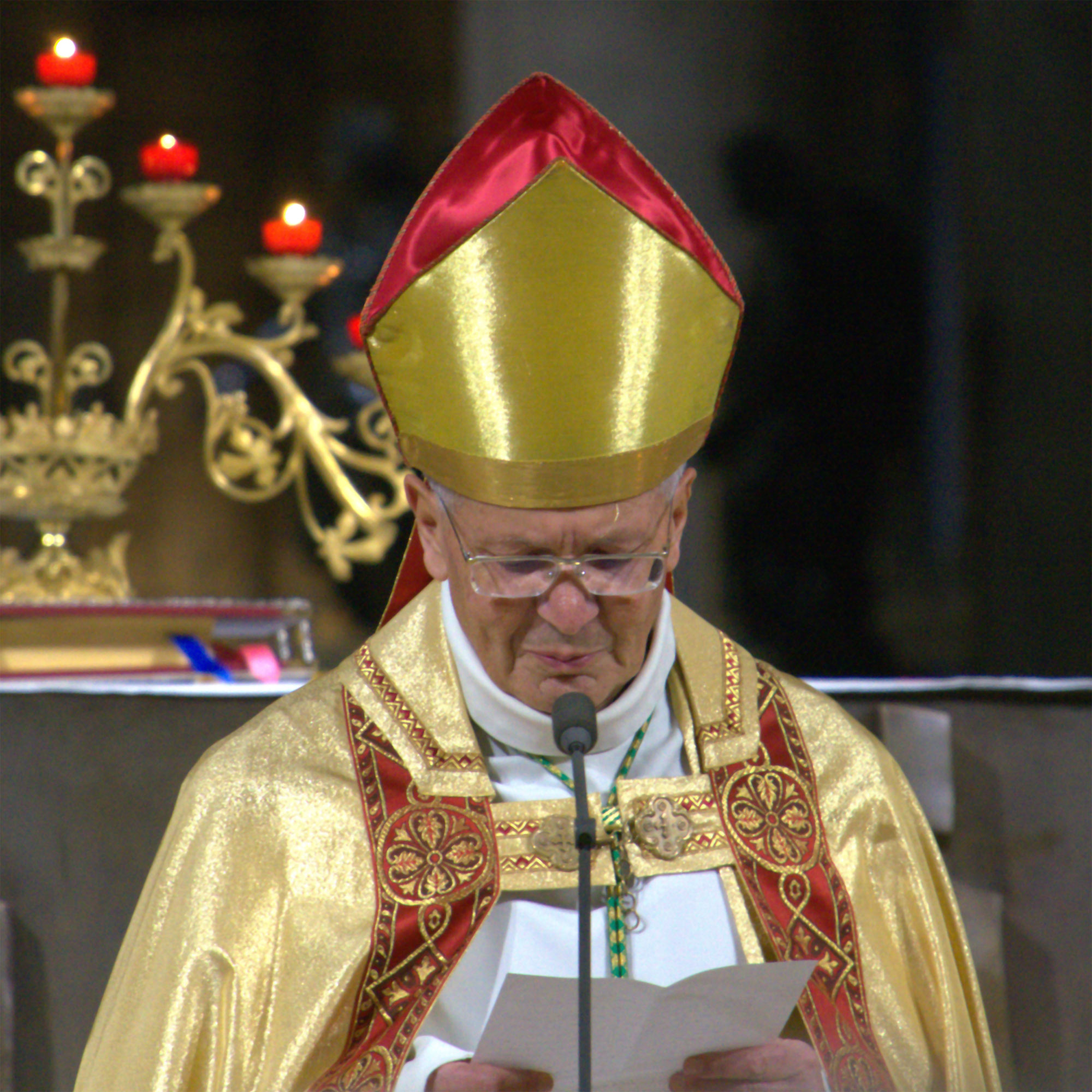 Guy Thomazeau, French Catholic archbishop, during commemoration of victims of Holodomor in Ukraine at Notre Dame de Paris